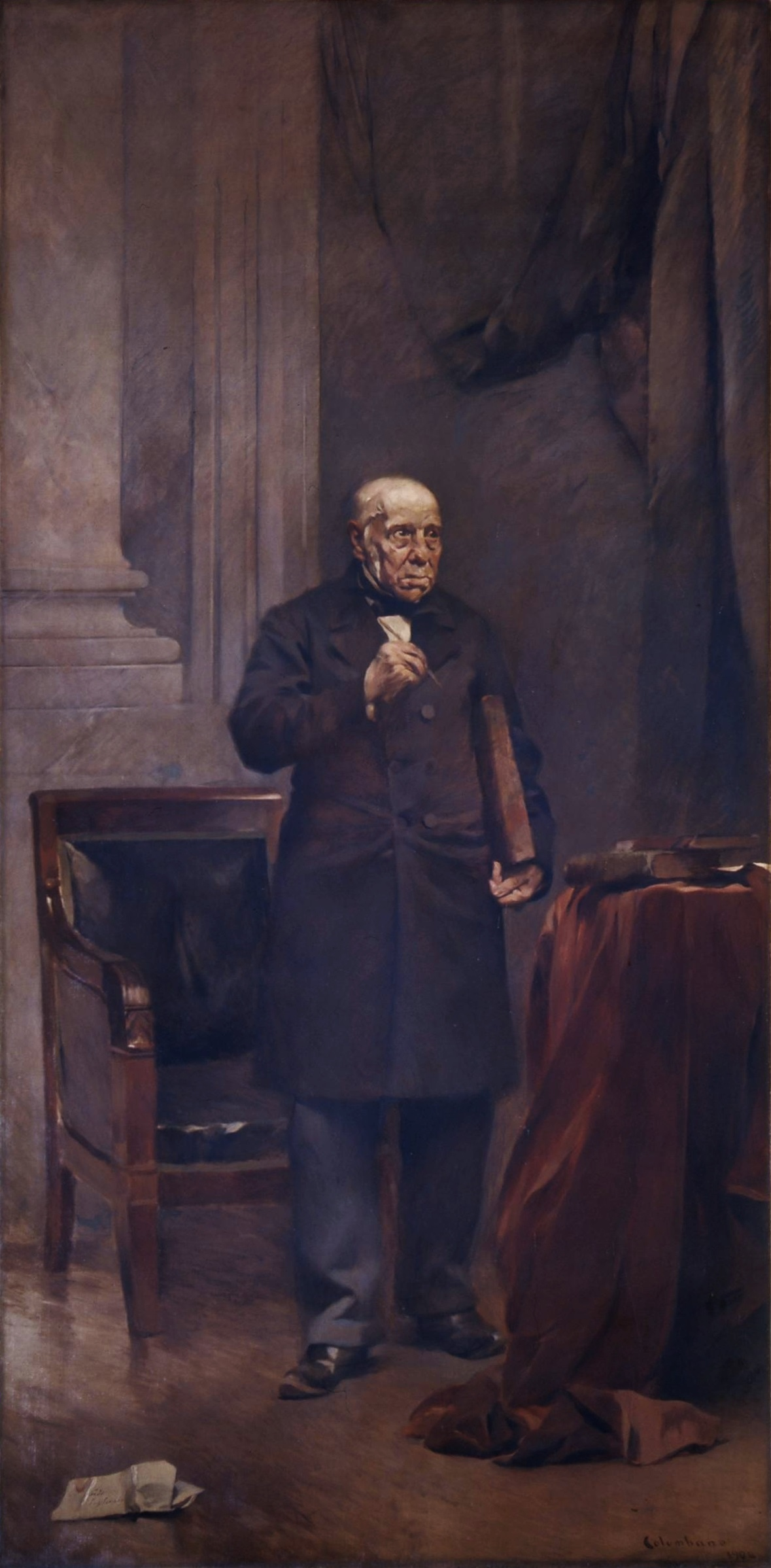 Portrait of Luz Soriano (1906), by Columbano Bordalo Pinheiro, in the Lisbon City Hall.